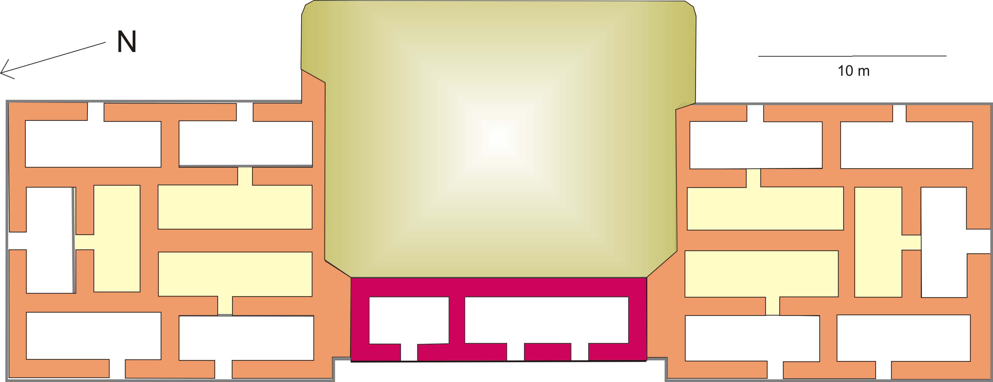 Plan of the Akab Dzib building, based on the map of Ruppert